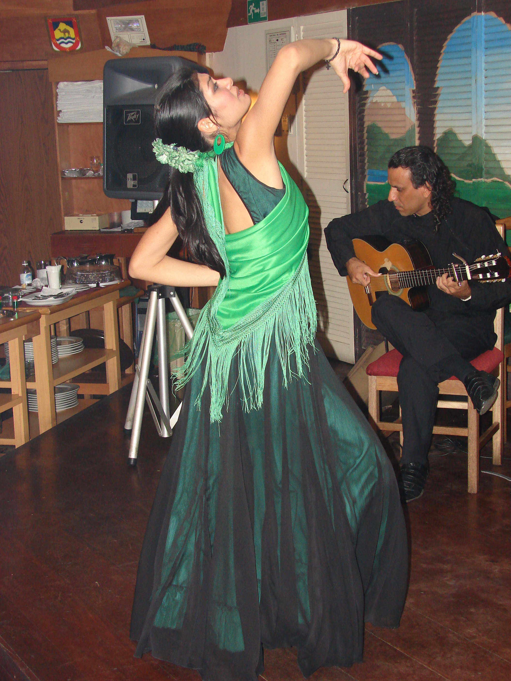 Dancer and guitarist